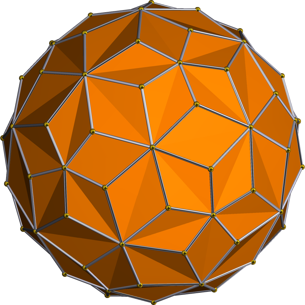 The copyright holder of this file, Robert Webb, allows anyone to use it for any purpose, provided that the copyright holder is properly attributed. Redistribution, derivative work, commercial use, and all other use is permitted. Attribution: Attribution must be given to Robert Webb's Stella software as the creator of this image along with a link to the website: A complimentary copy of any book or poster using images from the Software would also be appreciated where feasible. This work is free and may be used by anyone for any purpose. If you wish to use this content, you do not need to request permission as long as you follow any licensing requirements mentioned on this page.